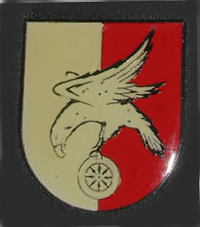 6th Tank Brigade Staff & HQ Company